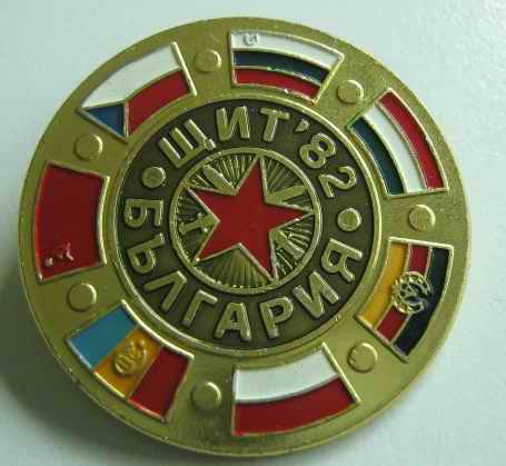 Badge for the Military Drill "Shield `82" in Bulgaria.